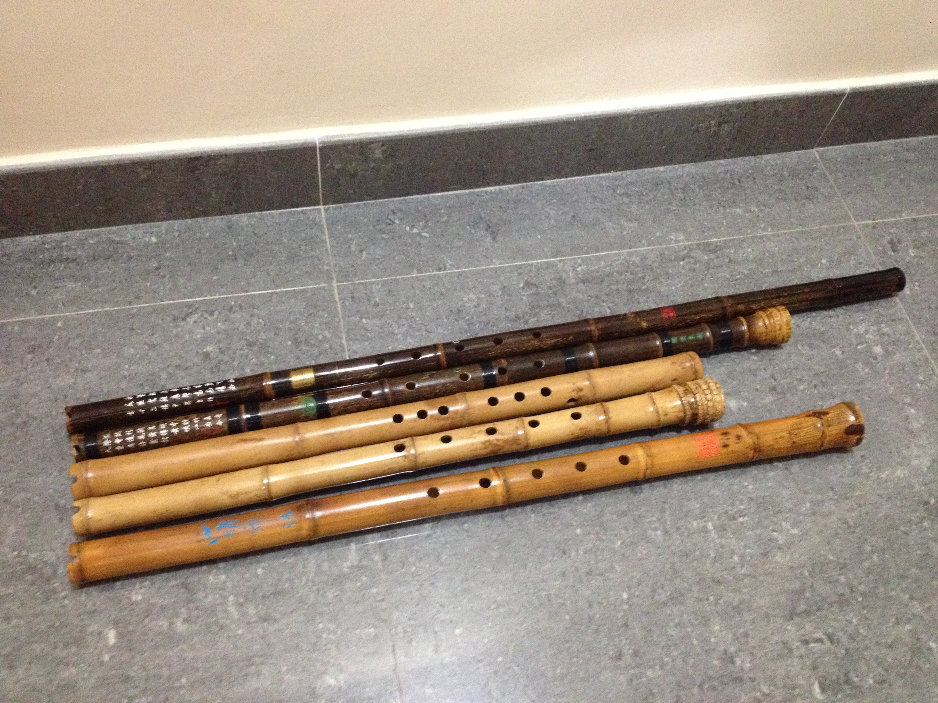 Qinxiao (琴簫/琴簫) and dongxiao (洞簫/洞簫).